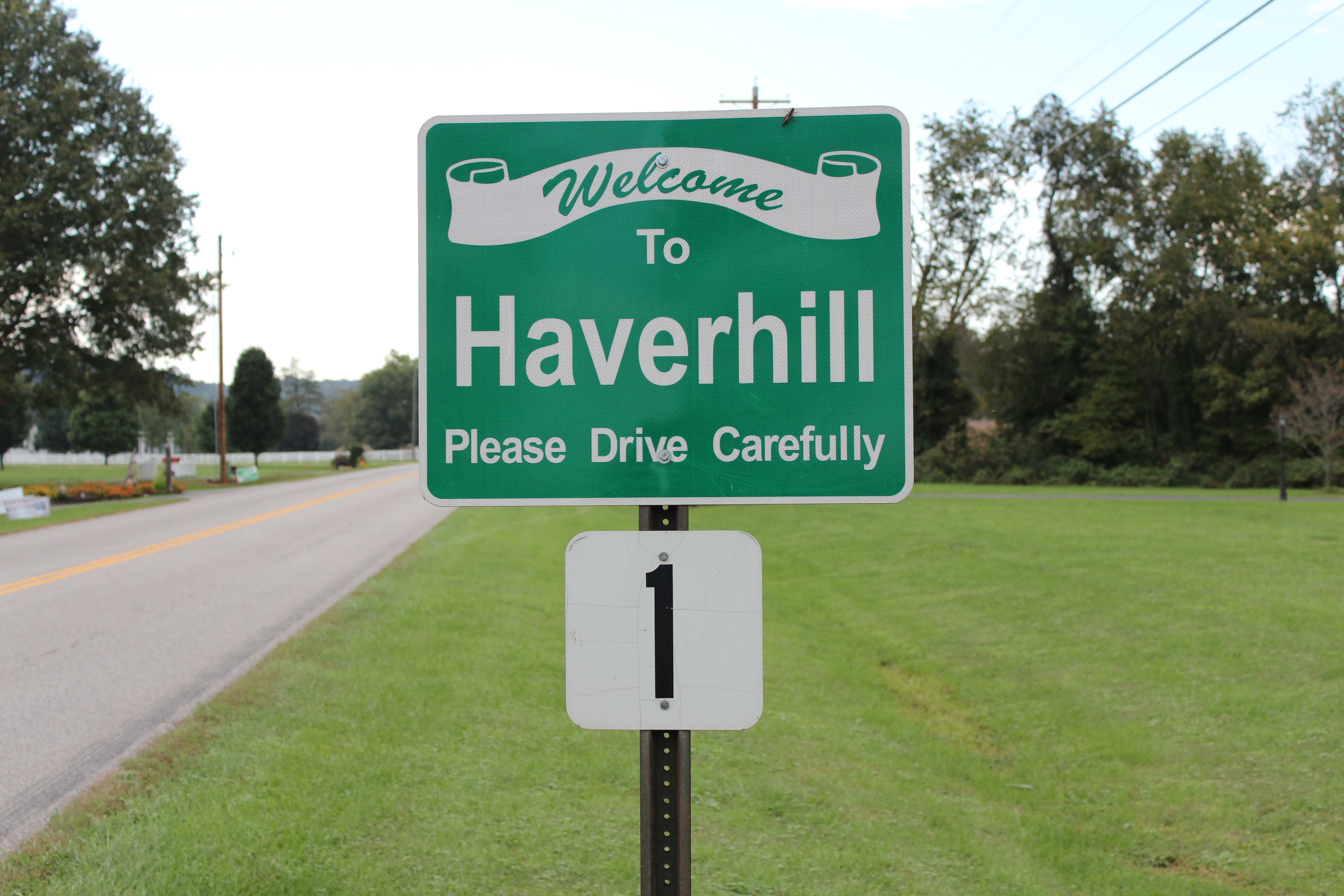 Sign welcoming drivers to the community of Haverhill, Ohio.